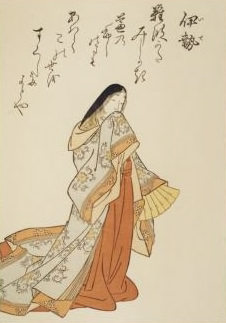 An image of Lady Ise, from [1] or It is a Hyakunin Isshu playing card, using an (old) classical image of Lady Ise.